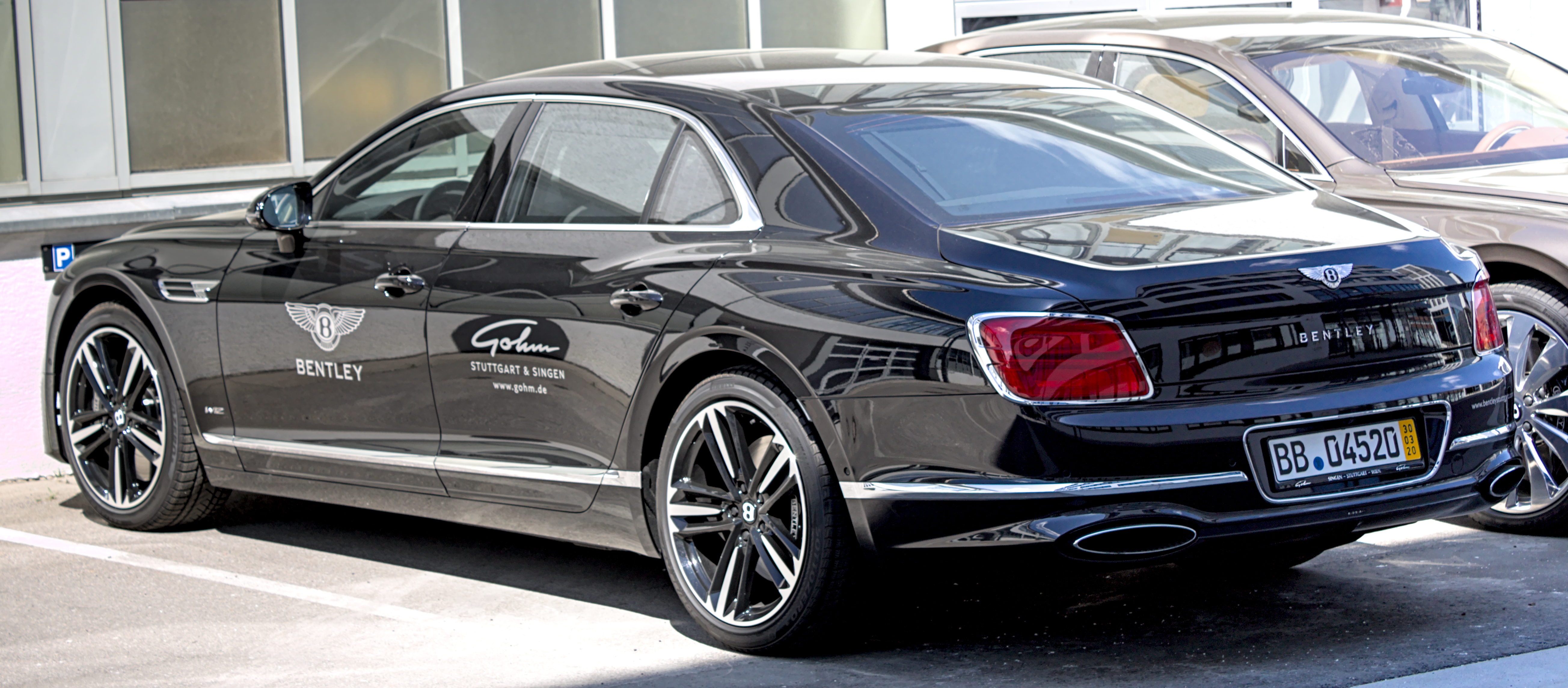 Bentley_Flying_Spur_(2019) in Böblingen